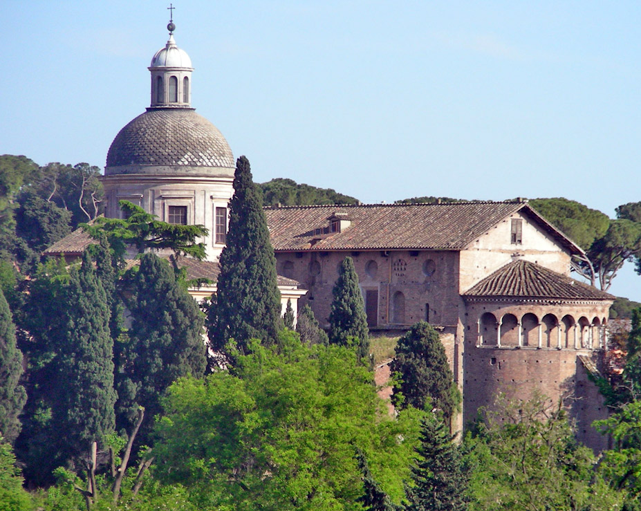 Rome, Basilica of Saints Giovanni and Paolo at Celius, view from the Palatine hill (Vigna Barberini)